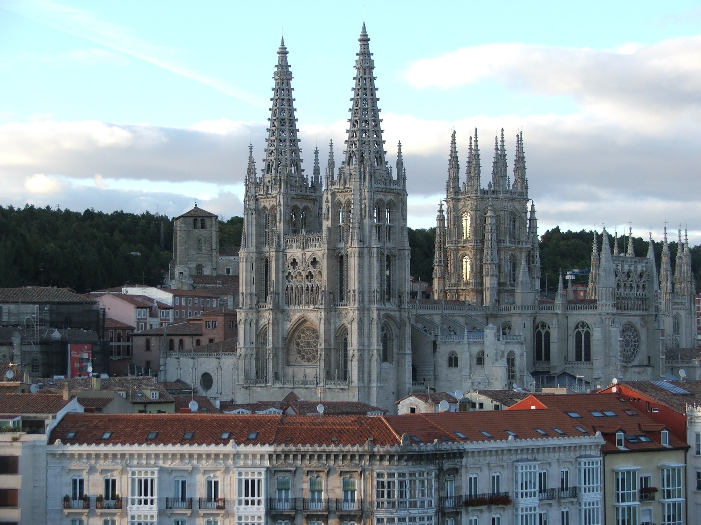 Burgos cathedral, Gothic architecture.